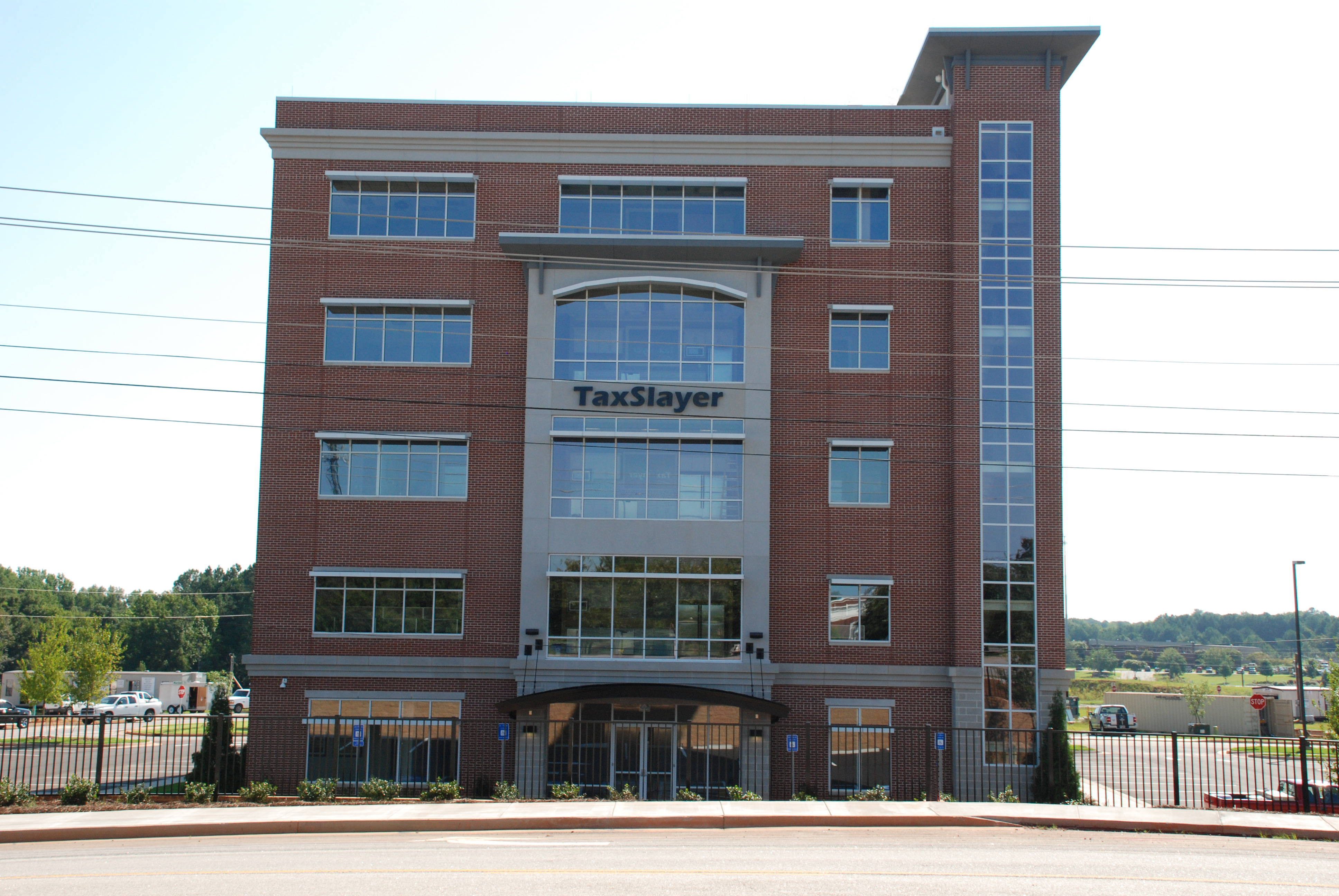 TaxSlayer Headquarters in Augusta, GA